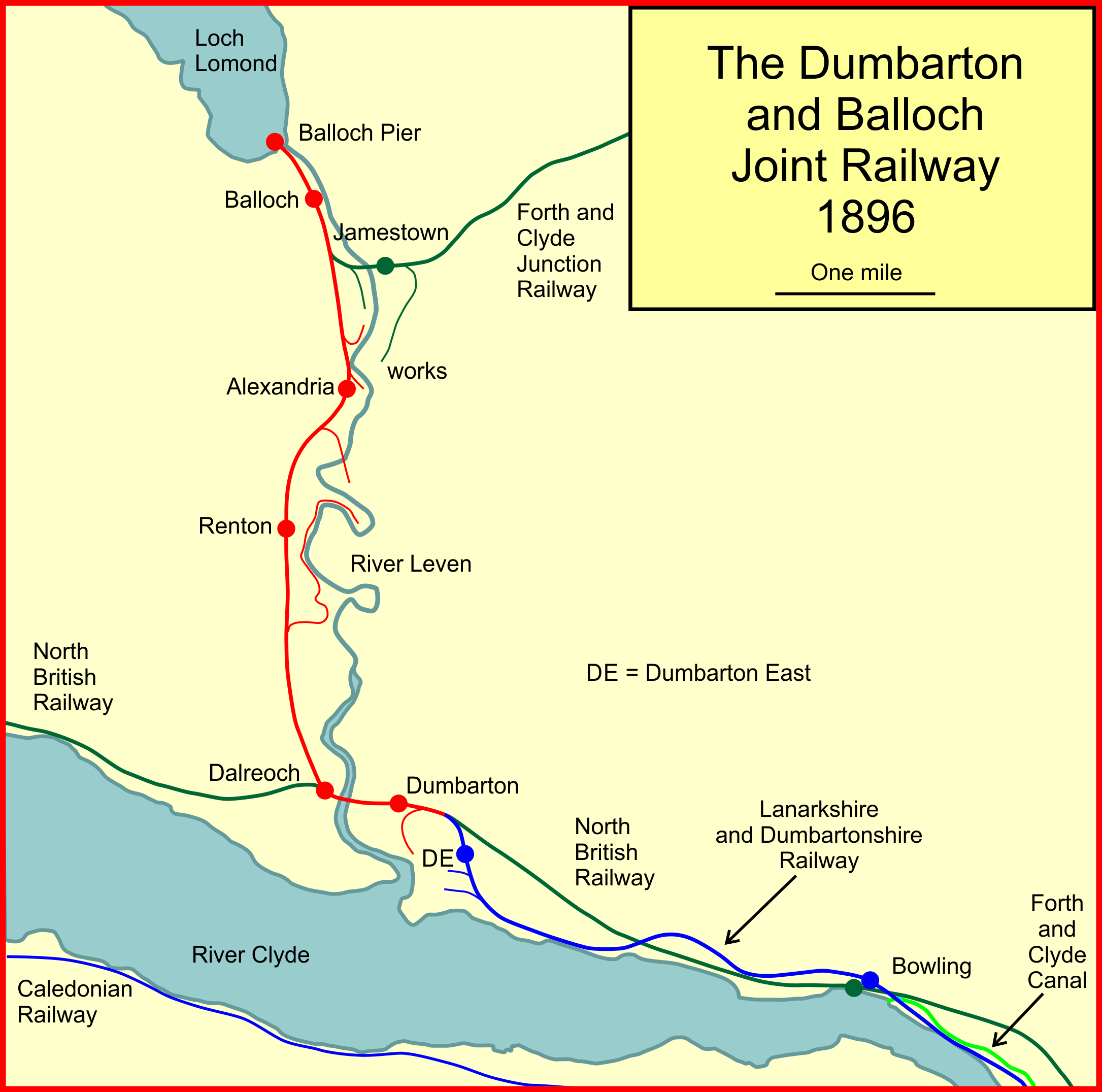 System map of the Dumbarton and Balloch Joint Railway, Scotland